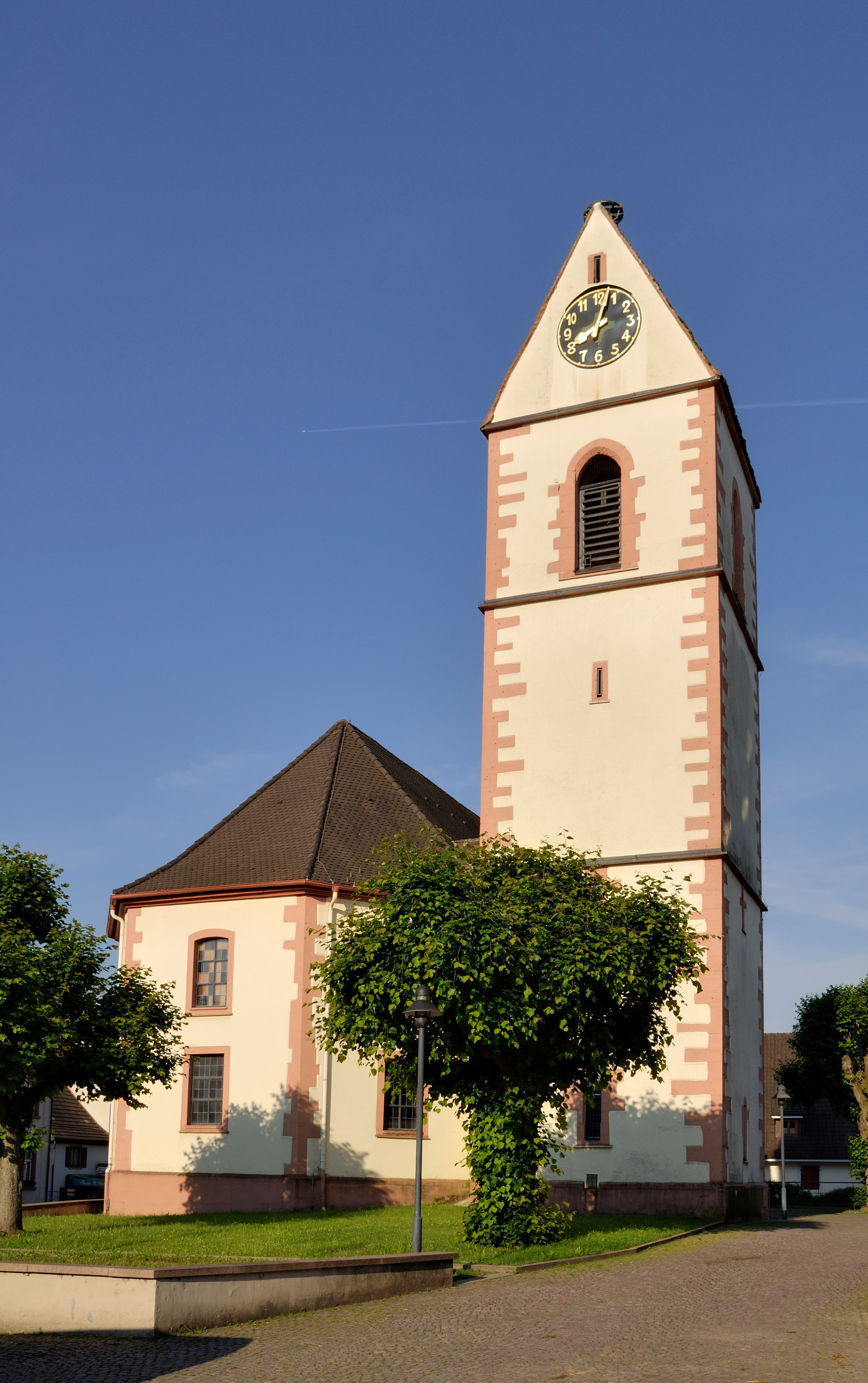 Hauingen: church of Saint Nicholas